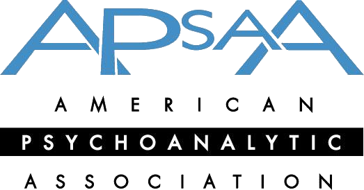 Logo of the scientific and professional organization American Psychoanalytic Association.